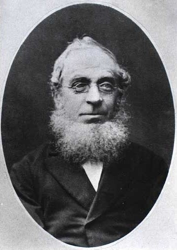 Julius August Bentzien (1815-1882), Danish gardener